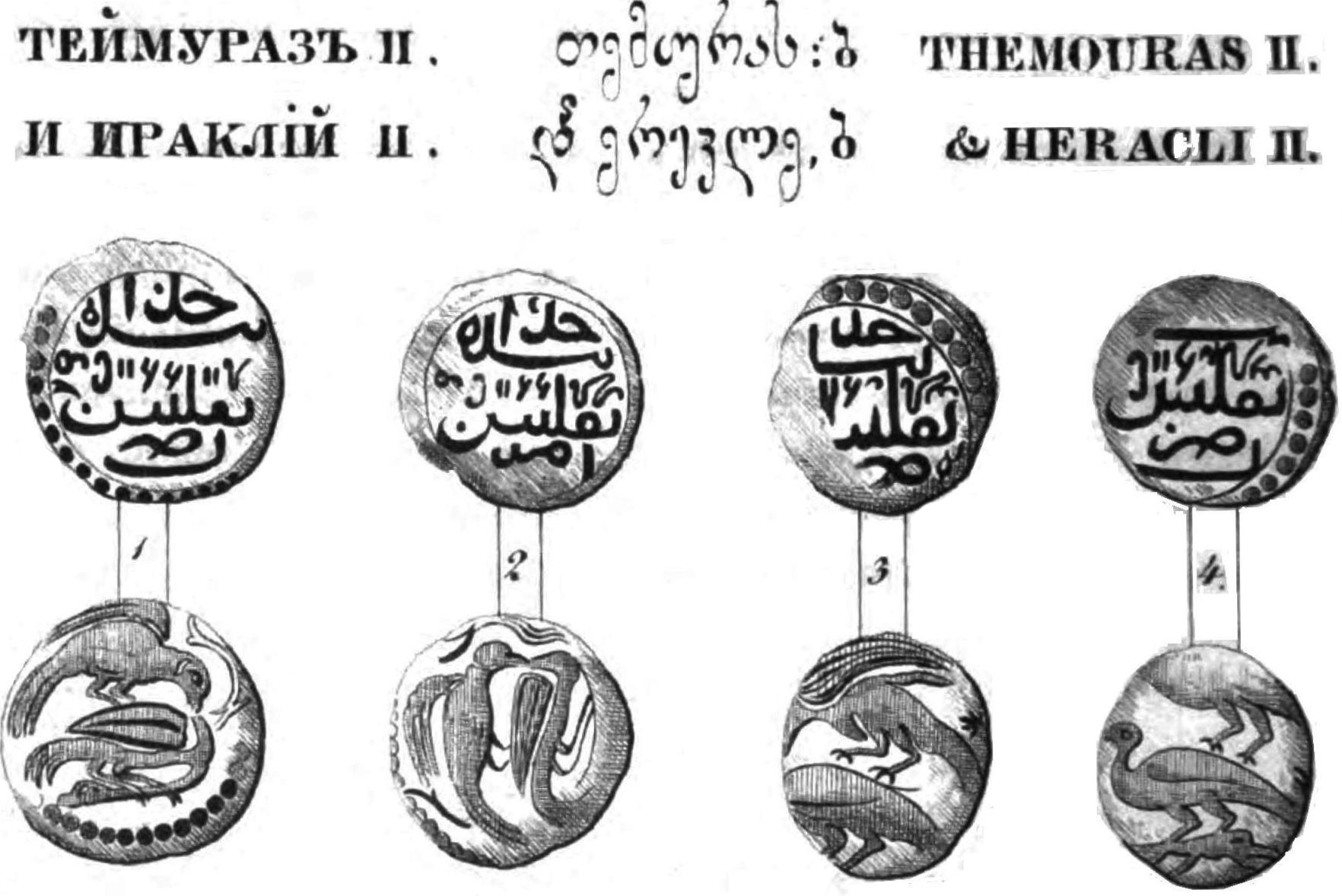 Coins in Georgia during Themouras II and Heracli II